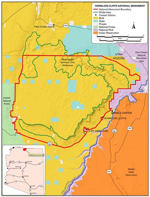 Map of Vermilion Cliffs National Monument — in Coconino County, northern Arizona. Also showing features of the High Plateaus region of Arizona and a section of the Colorado River.